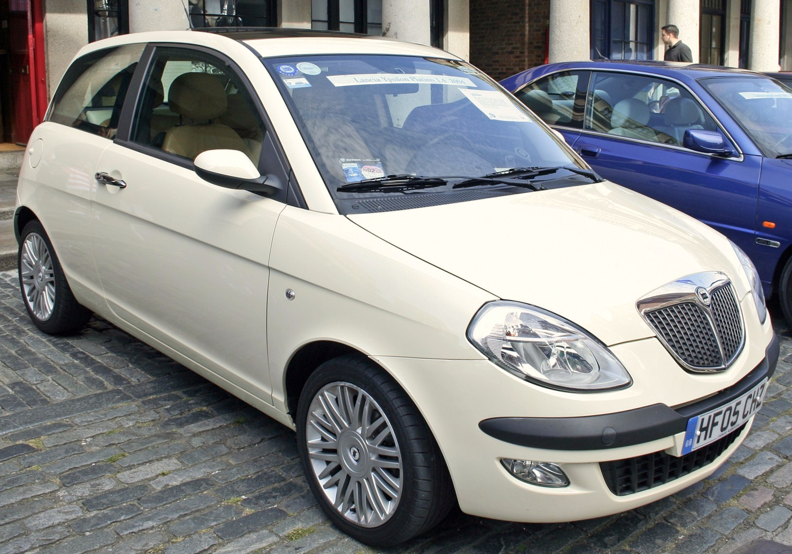 2003 Lancia Ypsilon